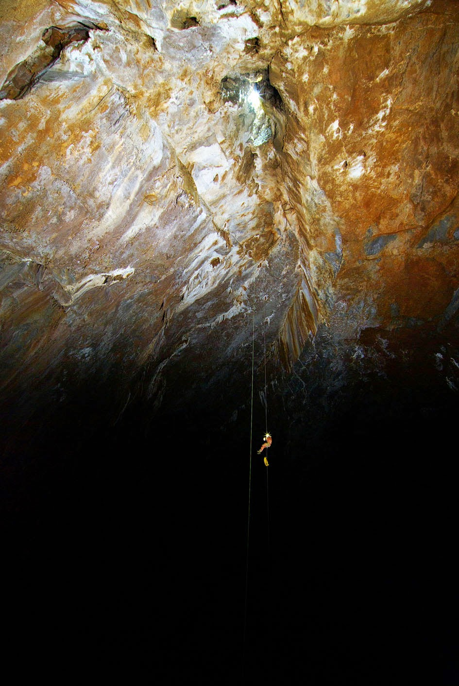 Speleologist entering the "Torca del Carlista" cave, in Karrantza (Spain). Photo: Josu Granja (ADES Espeleologia Elkartea)